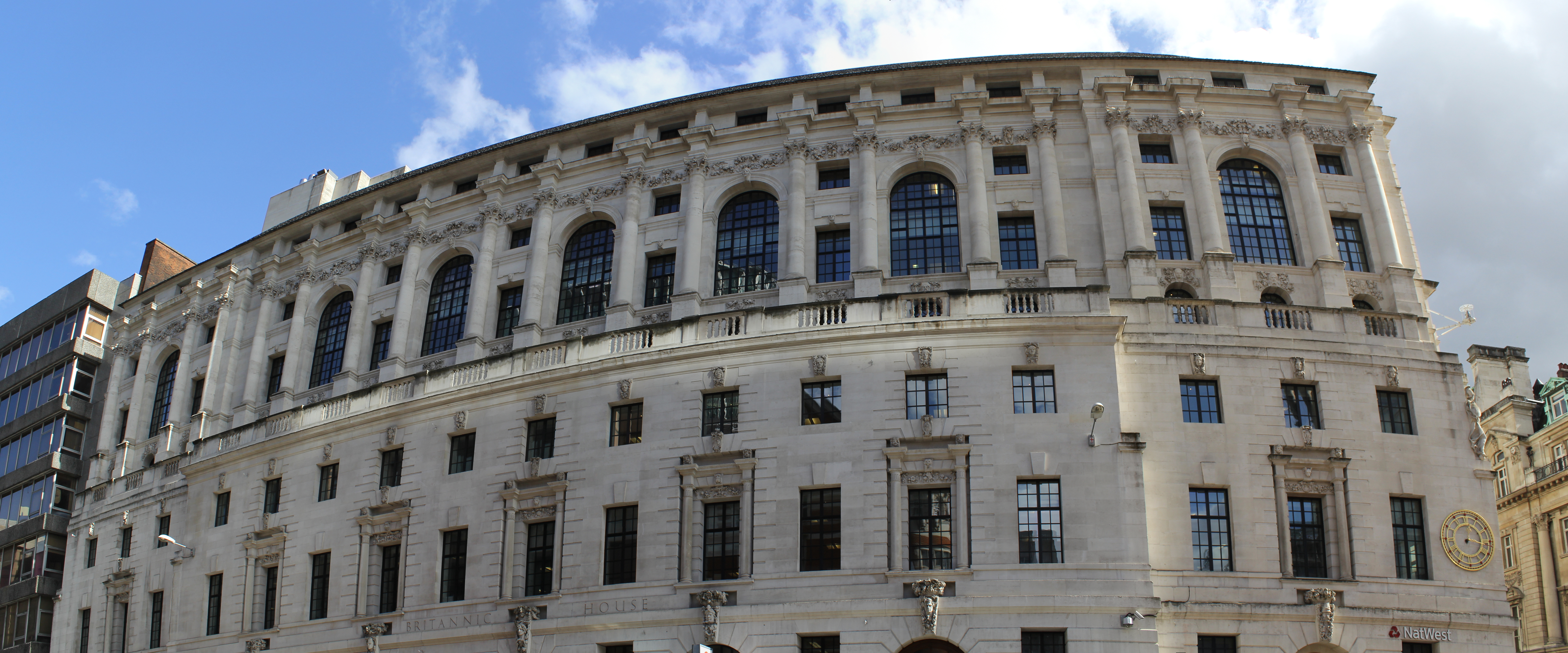 Lutyens House